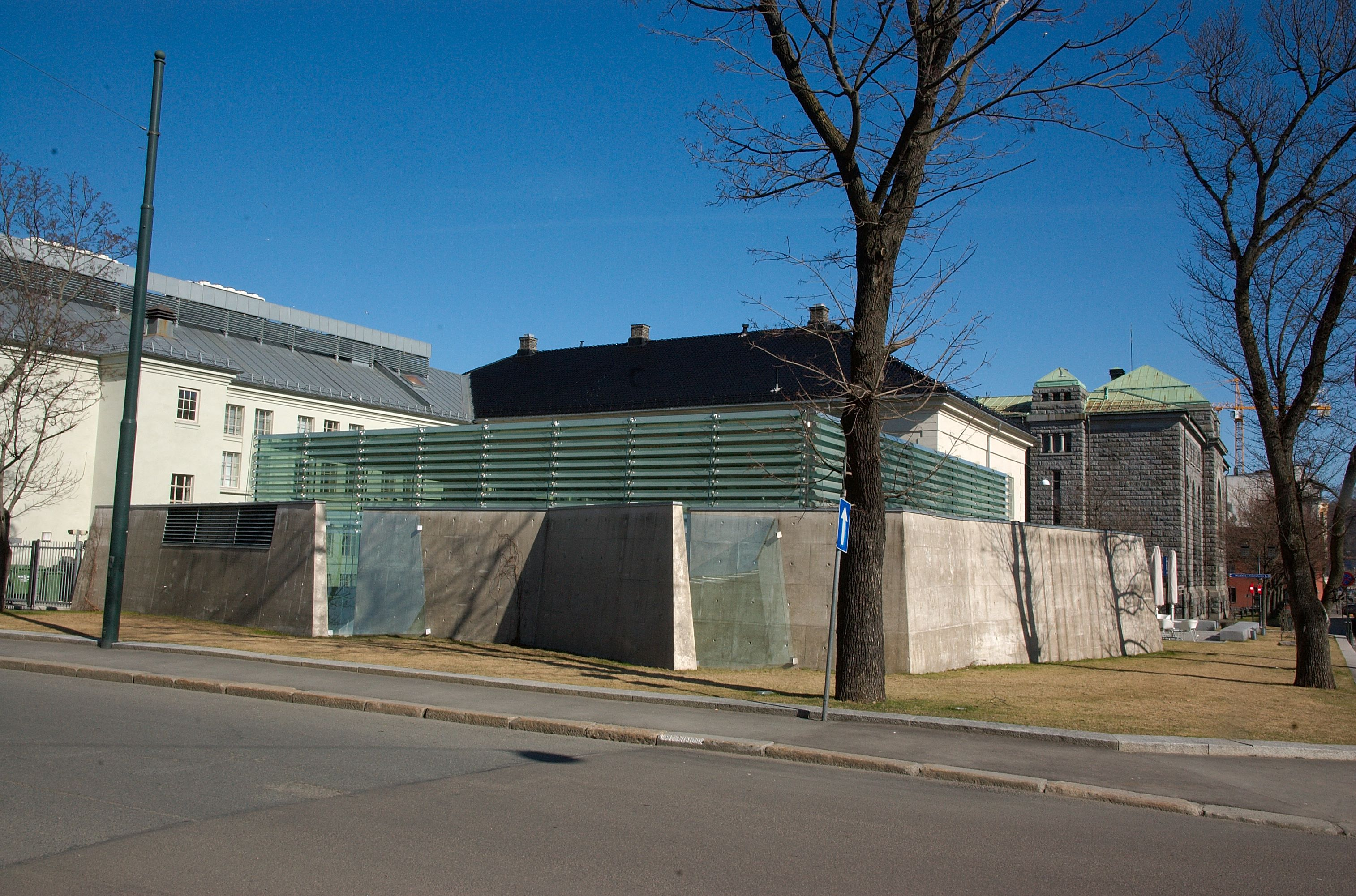 Norwegian National Museum of Architecture in Oslo by Sverre Fehn